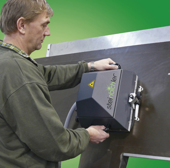 Shearography mobile testing unit